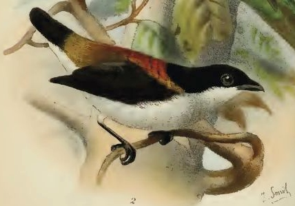 Prionochilus (=Dicaeum) quadricolor in Proceedings of the Zoological Society of London Volume III Plate 77